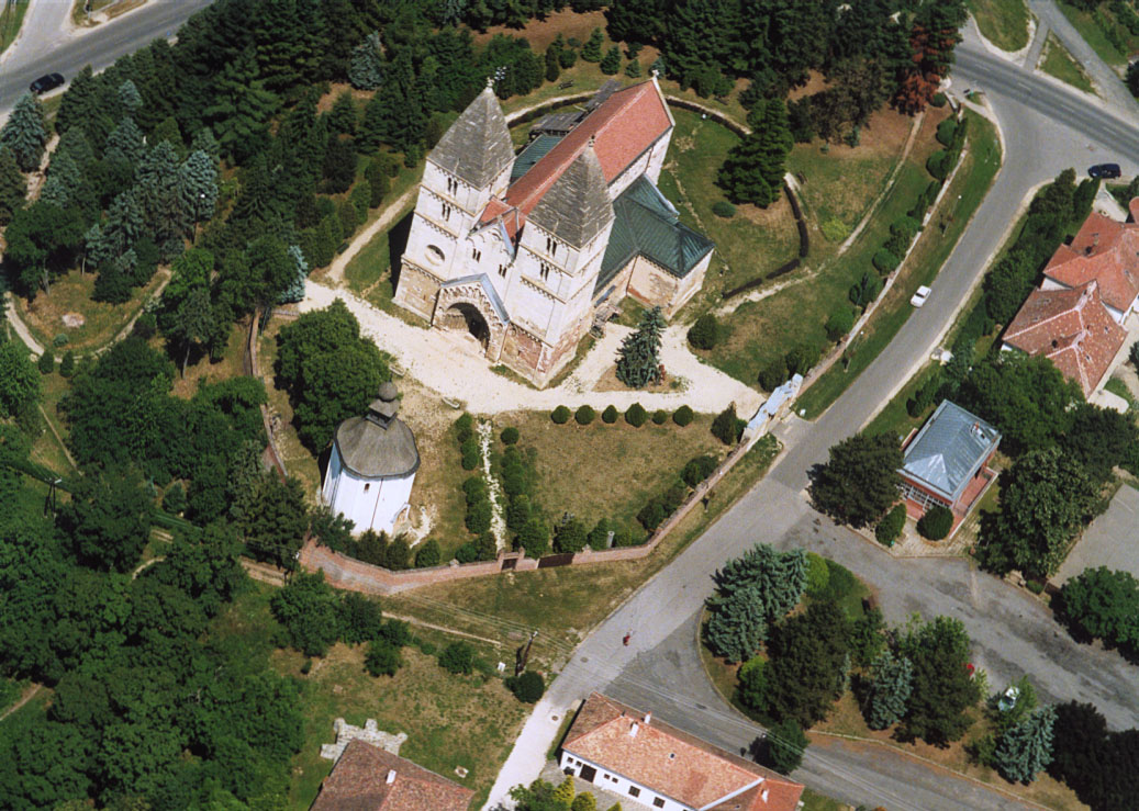 Templom - Ják - Hungary - Europe